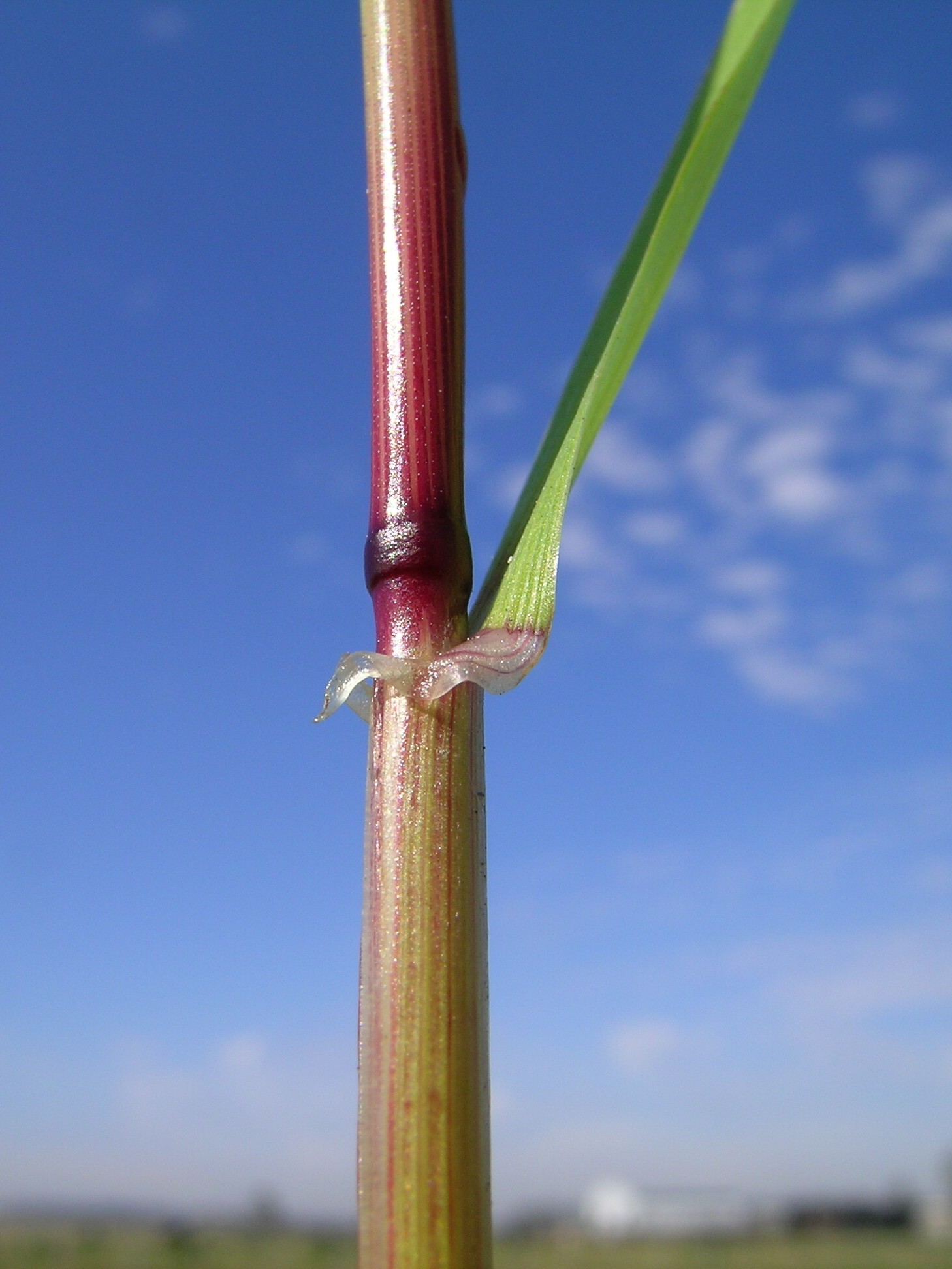 Auricles 2-3 mm long.